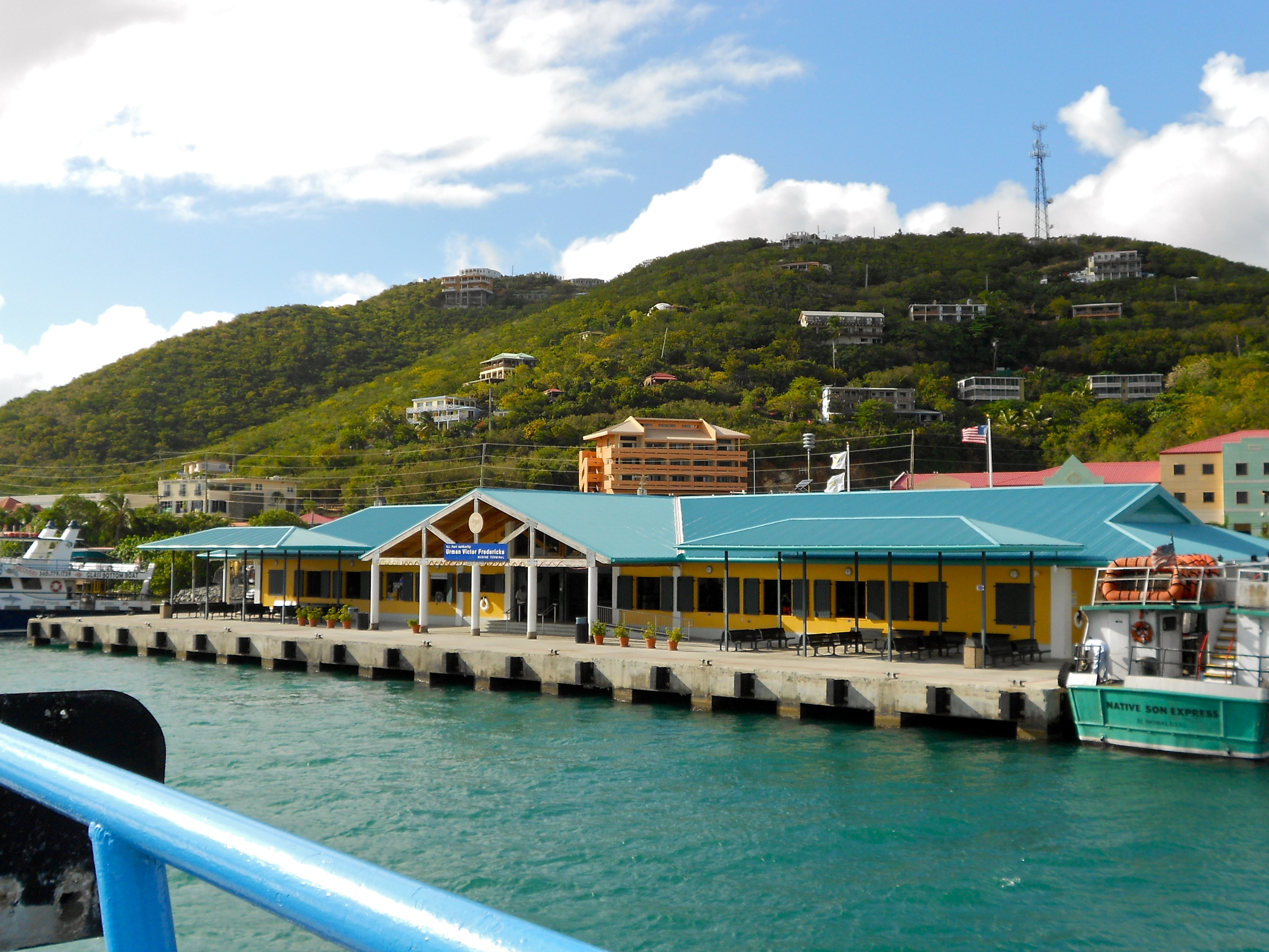 Coming into port in Red Hook, St. Thomas, US Virgin Islands